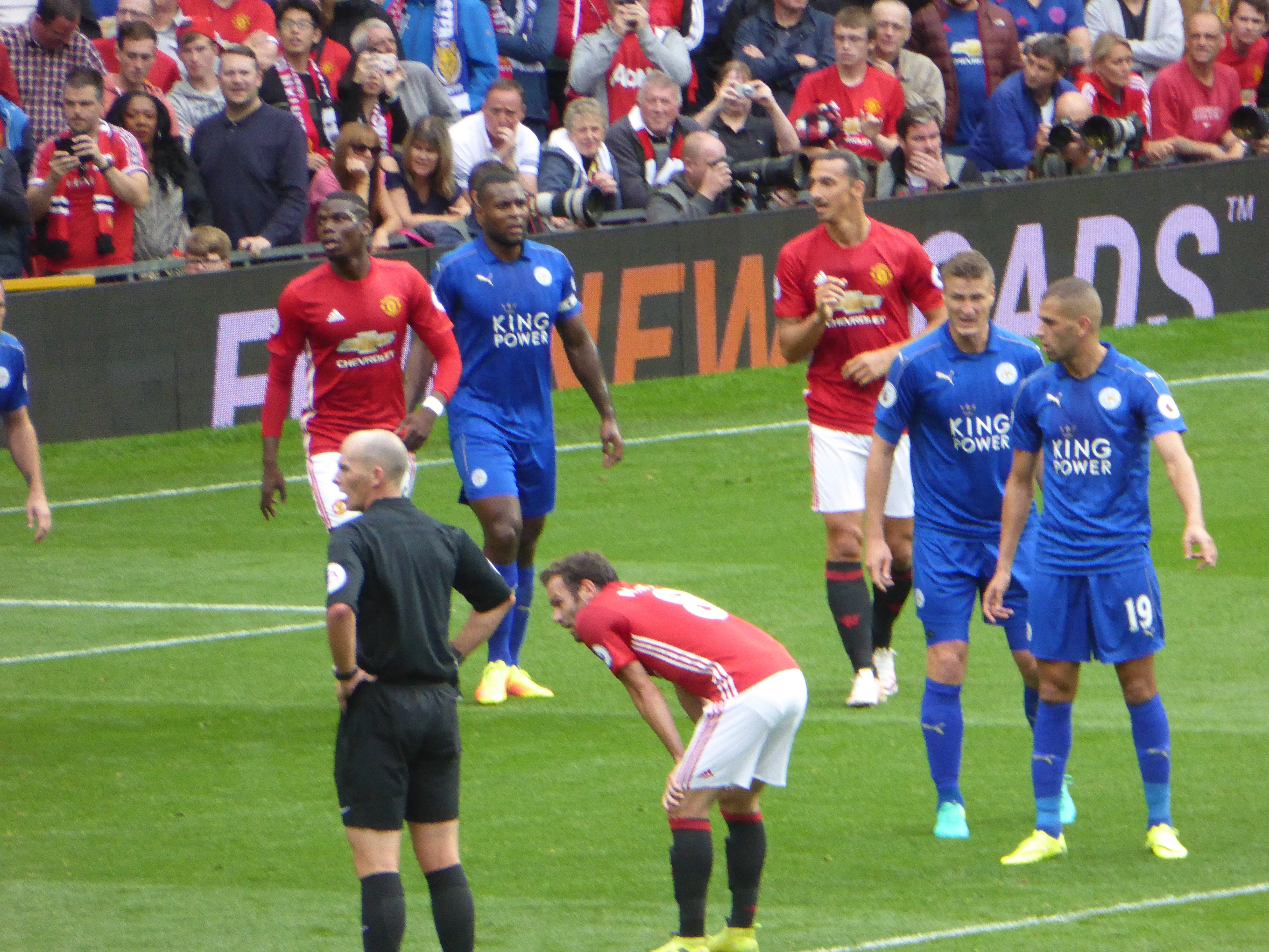 Manchester United v Leicester City (4-1), Old Trafford, Manchester, Greater Manchester, England, September 2016